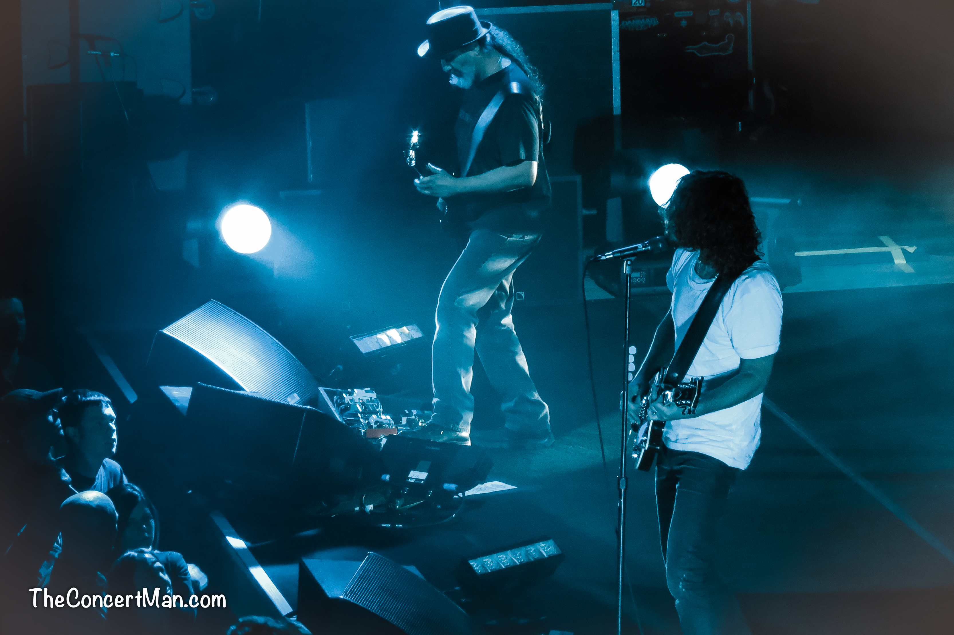 Members of Soundgarden Kim Thayil & Chris Cornell (2013)